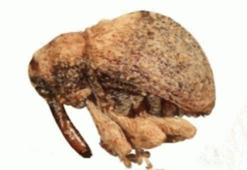 ZooKeys - Cionomimus insolens Cut-out from original (Anthonomini species - ZooKeys-260-031-g008.jpeg) shown below